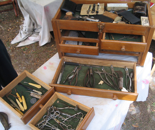 Dentistry equipment of the civil war